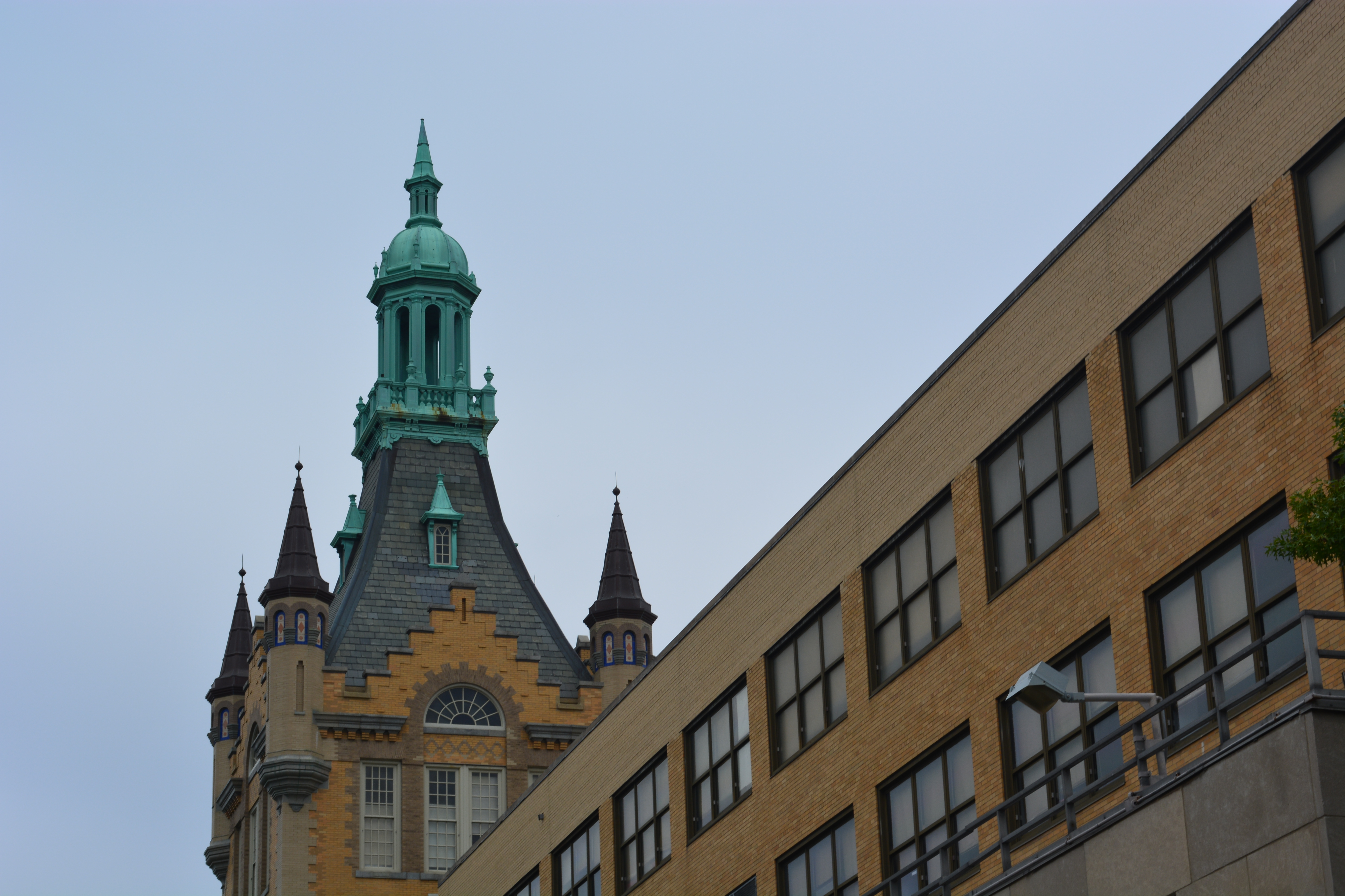 Side view of newtown high school.